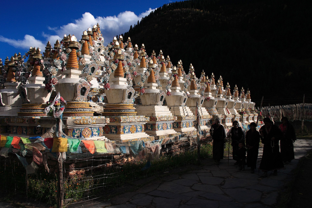 Pagoda at Larima, Xinlong, Garzê Tibetan Autonomous Prefecture, Sichuan, China